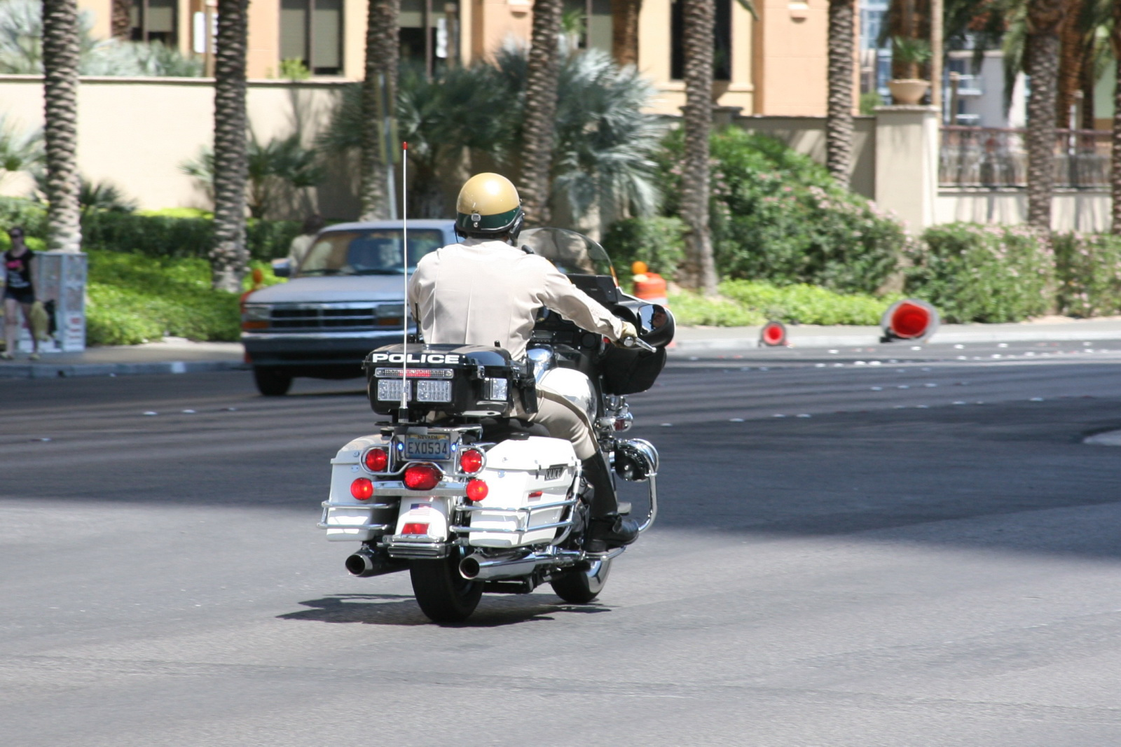 Currently, Metro has over 5,000 members. Of these 5,000 individuals, 2,600 are police officers and 600 are corrections officers.